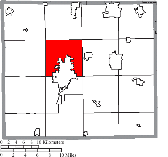 Map of the municipal and township boundaries of Wayne County, Ohio, United States, as of the 2000 census, with the location of Wayne Township highlighted. Township borders are shown only in unincorporated areas in order to differentiate incorporated and unincorporated areas more clearly.